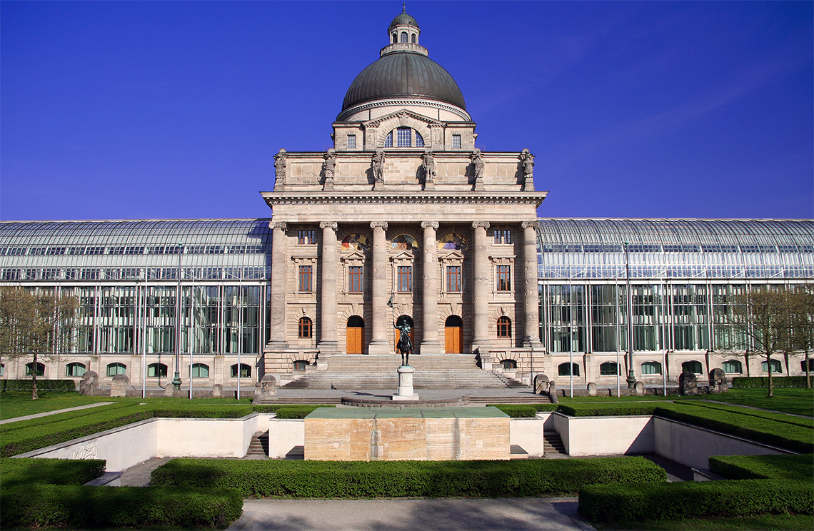 Bavarian State Chancellery